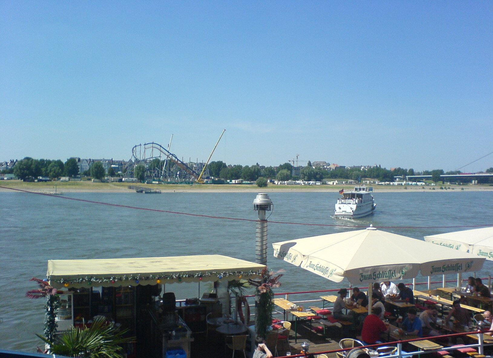 Picture of Rhine, Düsseldorf, Germany. The author is me, Jostein Torstensen.